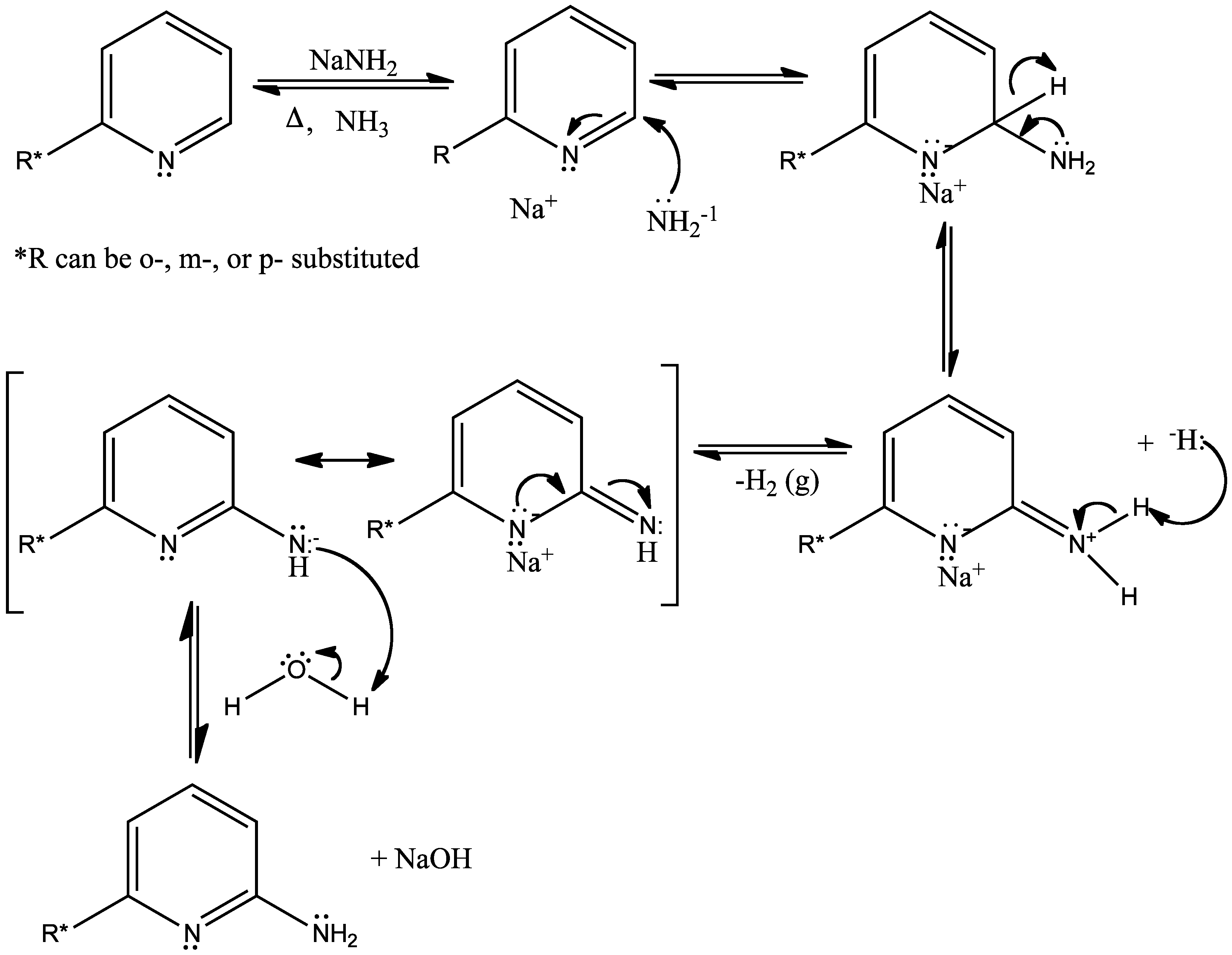 The Chichibabin Reaction mechanism.